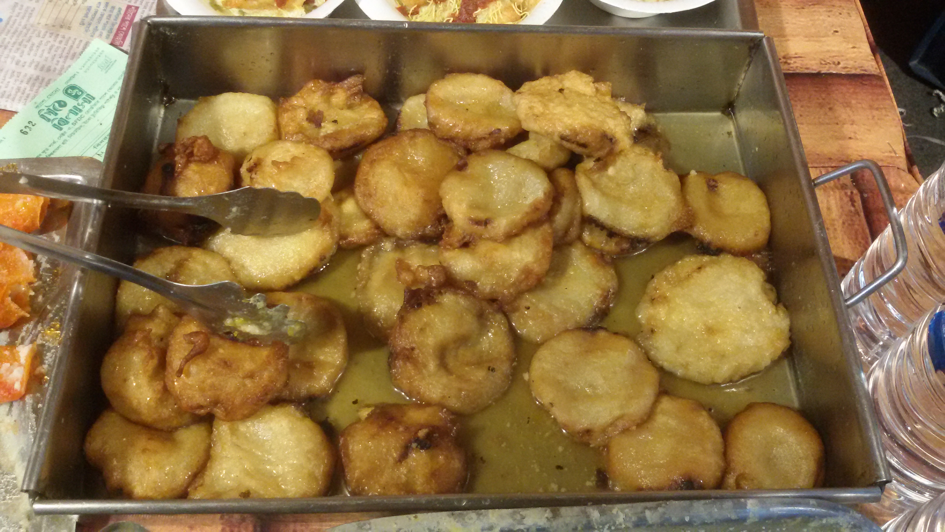 Image of gokul pithe, taken at Paschimbanga Khadya Utsav 2016.